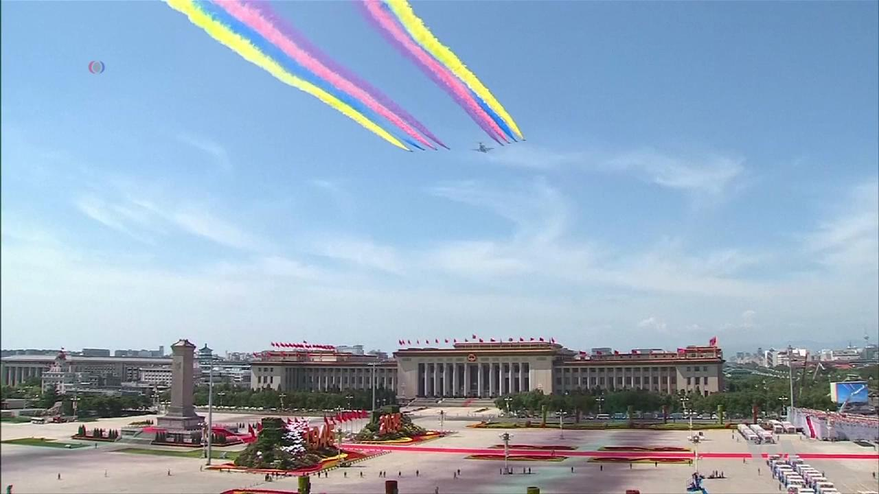 2015 China WWII Parade (screenshot)